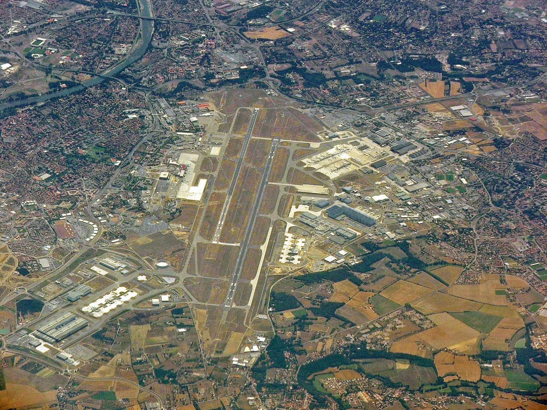 Toulouse Airport, France - aerial view when flying from Prague to Madrid